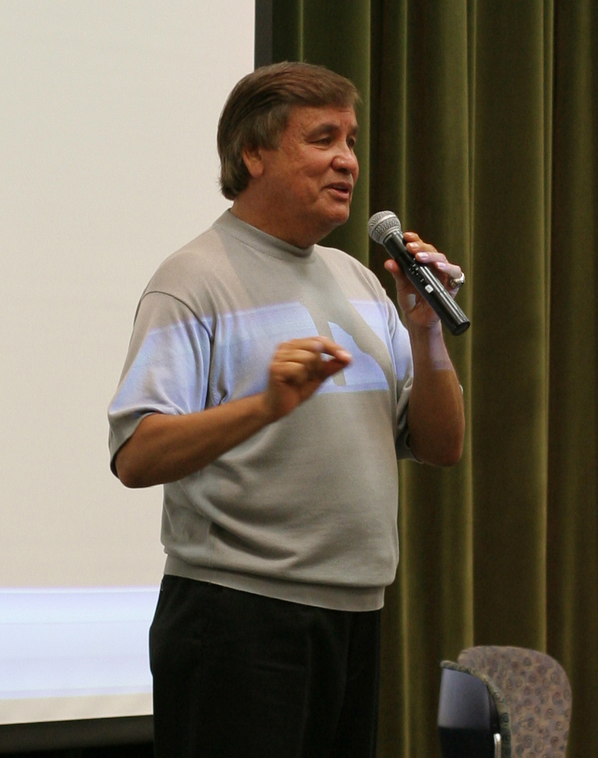 Image of Billy Mills taken while he was giving a speech at Cal Poly Pomona